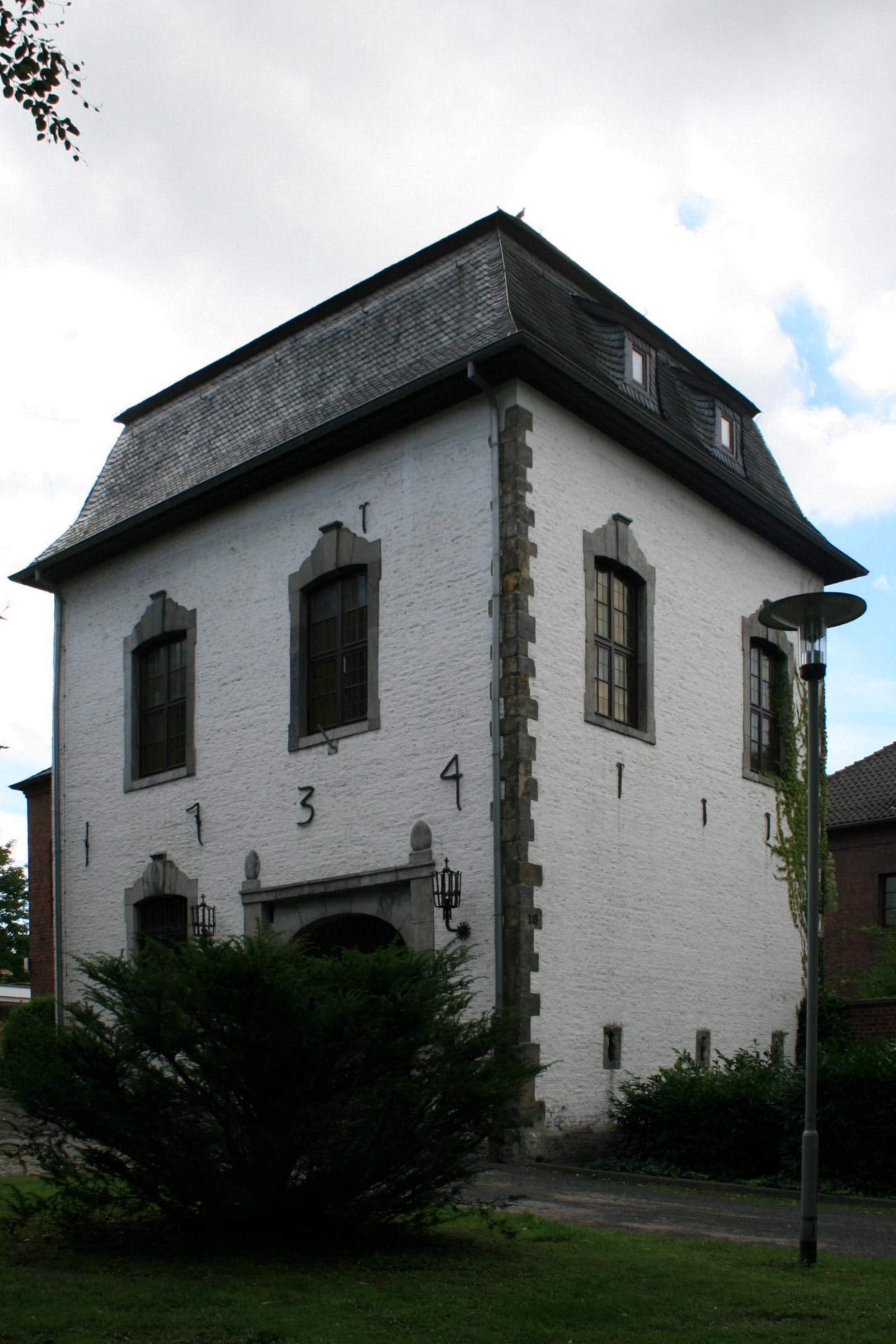 Cultural heritage monument No. B 121 in Mönchengladbach